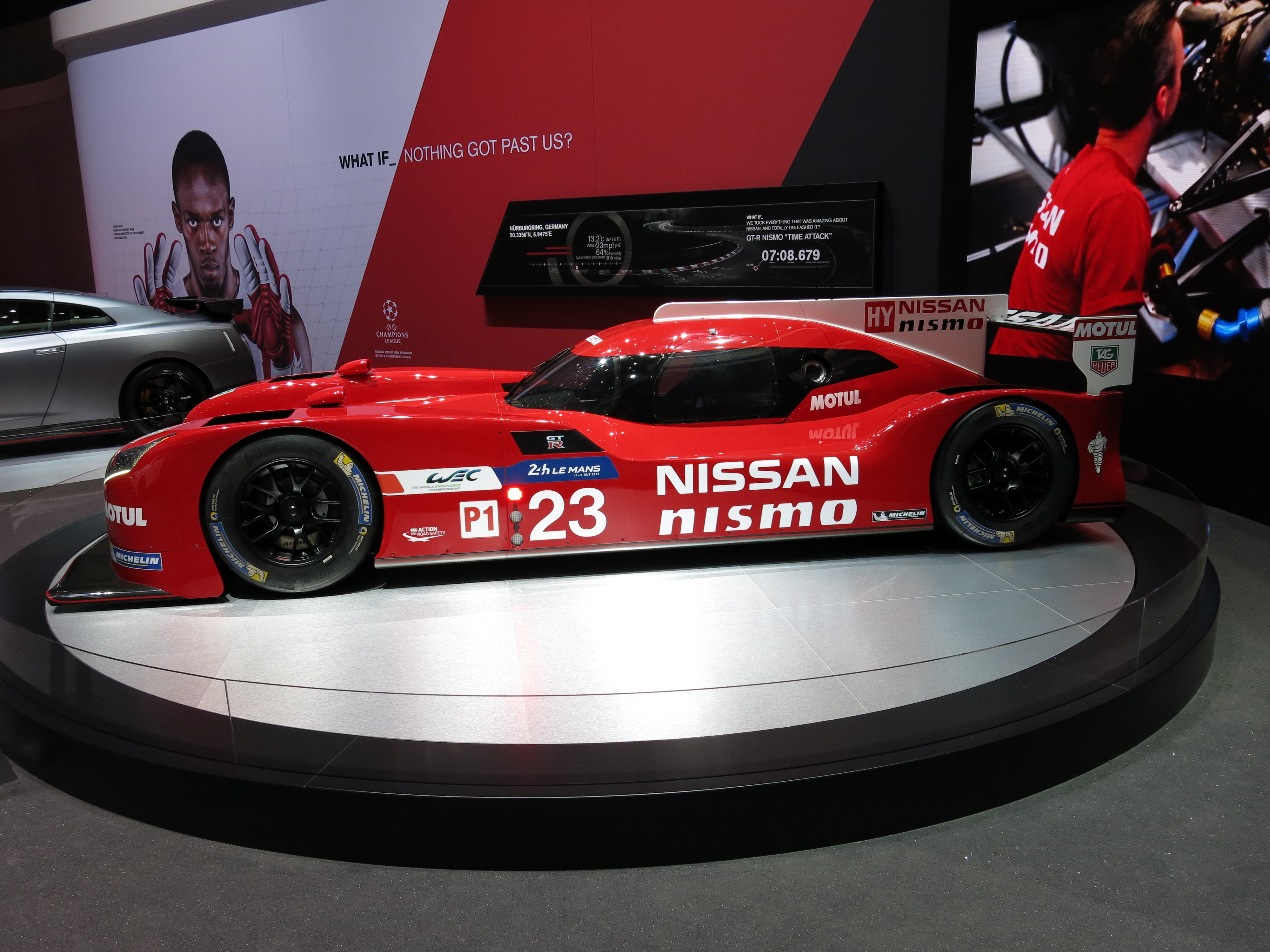 Geneva Motor Show 2015 (photo taken on the first press day)